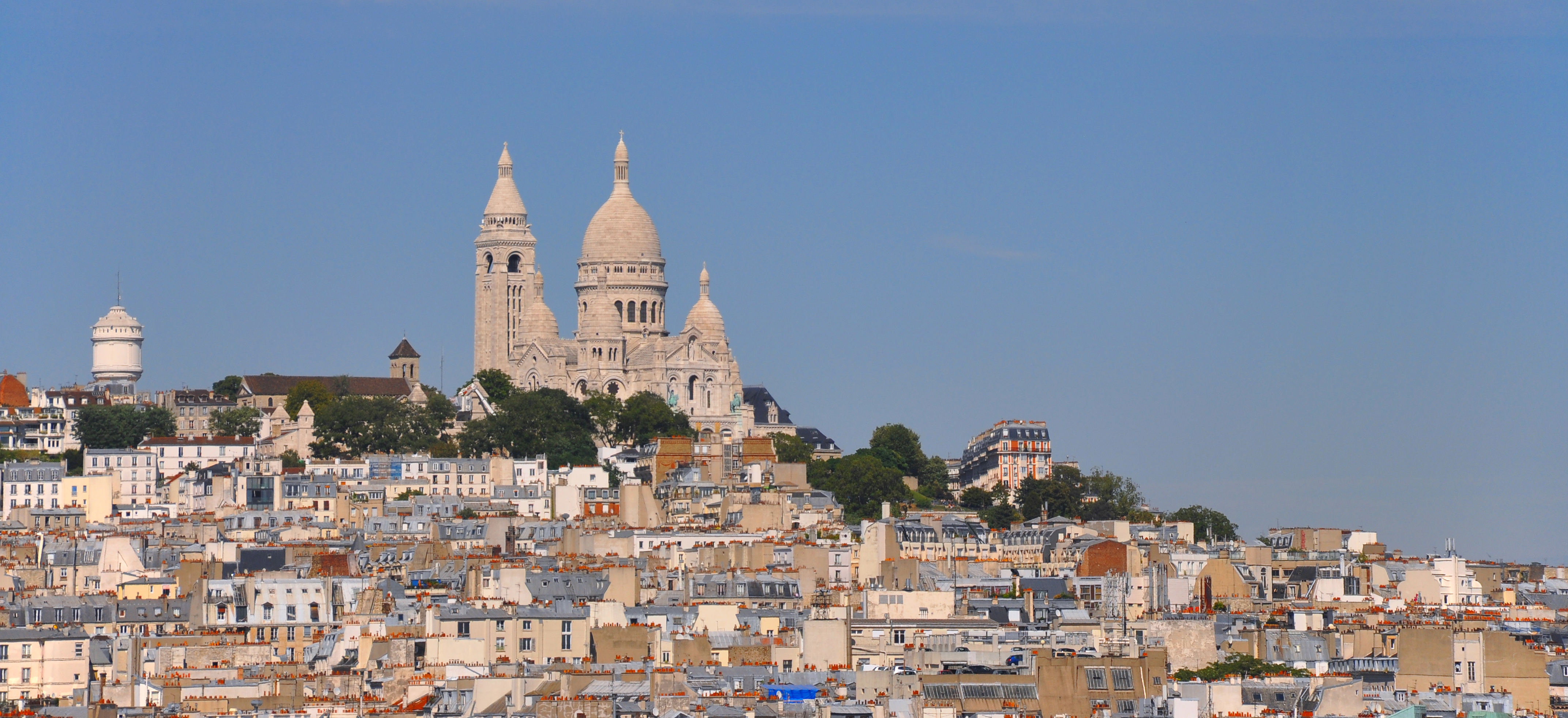 View above Montmartre and Basilique Sacré-Cœur from the top of Galeries Lafayette Haussmann in Paris, France.